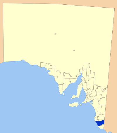 Map of LGAs, showing DC of Wattle Ranges Position. A Modification of user Astrokey44 original LGA map found at